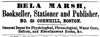 Ad for "Bela Marsh, bookseller, stationer and publisher, no.25 Cornhill, Boston. General depot for physiological, phrenological, water cure, reform, and miscellaneous books, &c."